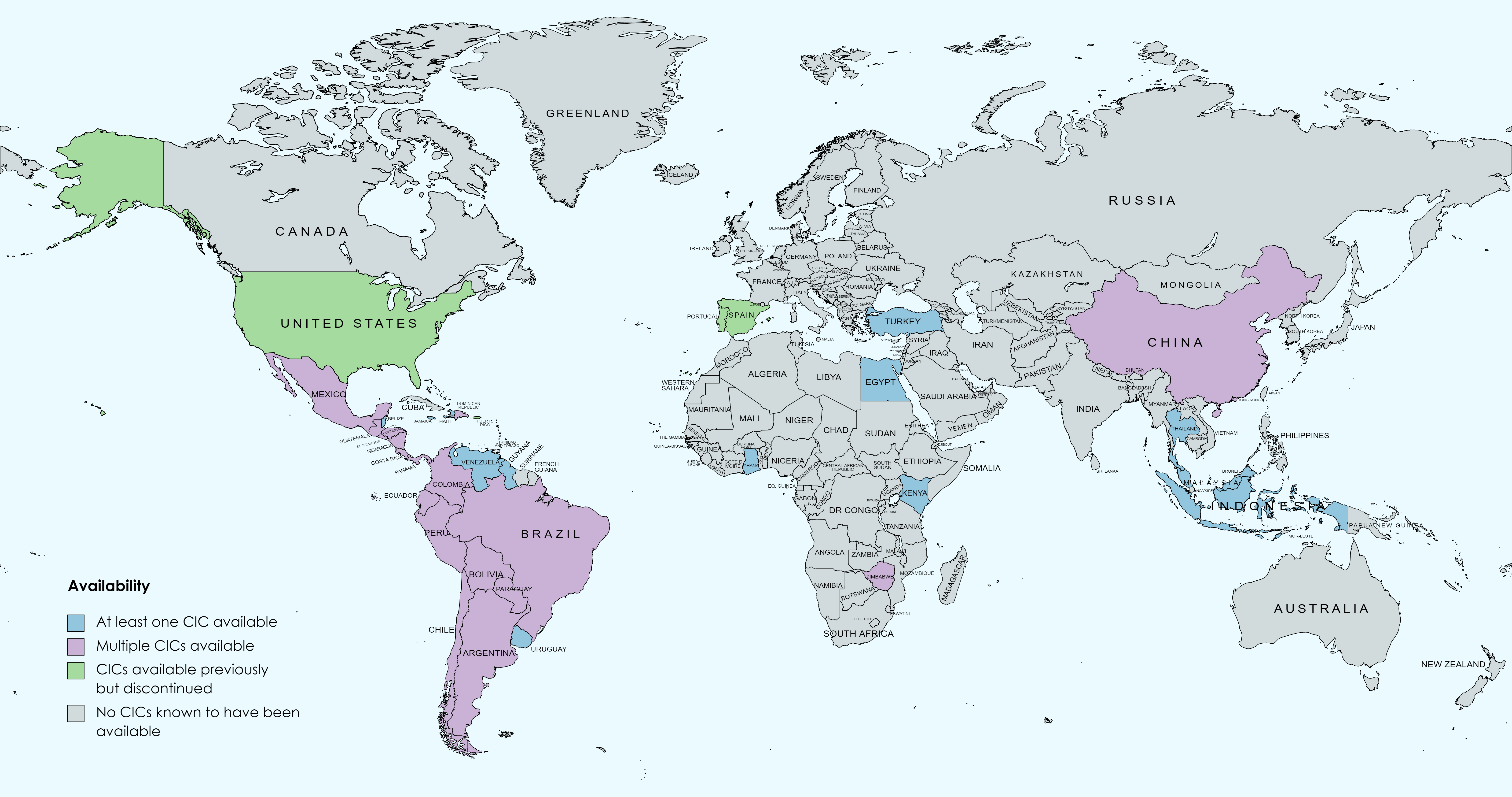 Known availability of combined injectable contraceptives as of September 2018. Created from source material using . Source of the information: See Template:Combined injectable contraceptives marketed for clinical use and references.